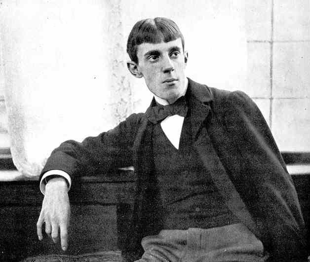 Portrait of English illustrator Aubrey Beardsley (August 21, 1872 – March 16, 1898) by photographer Frederick Hollyer.